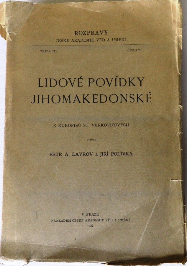 Lidové povídky jihomakedonské